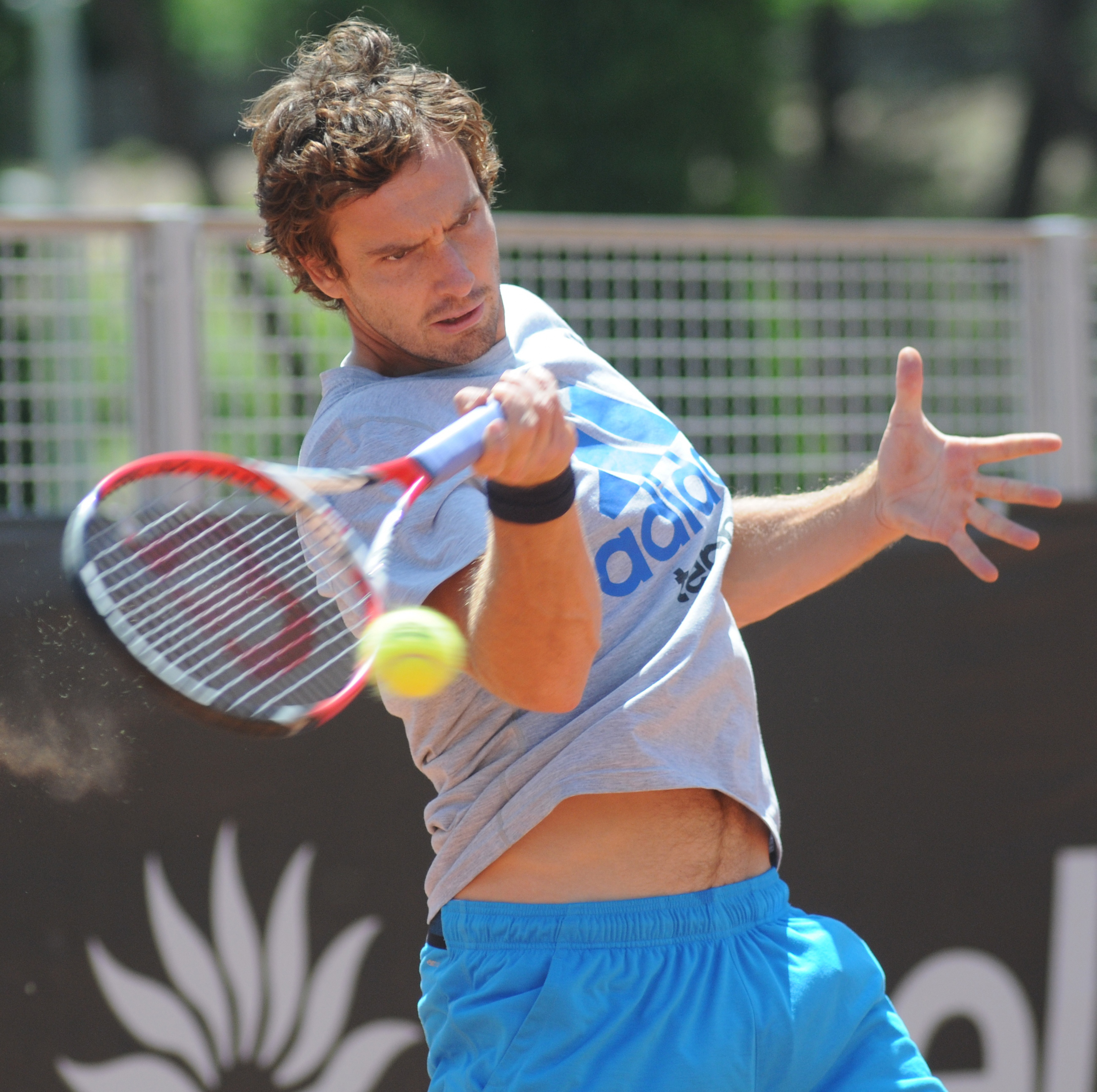 Ernests Gulbis at the 2014 Internazionali BNL d'Italia